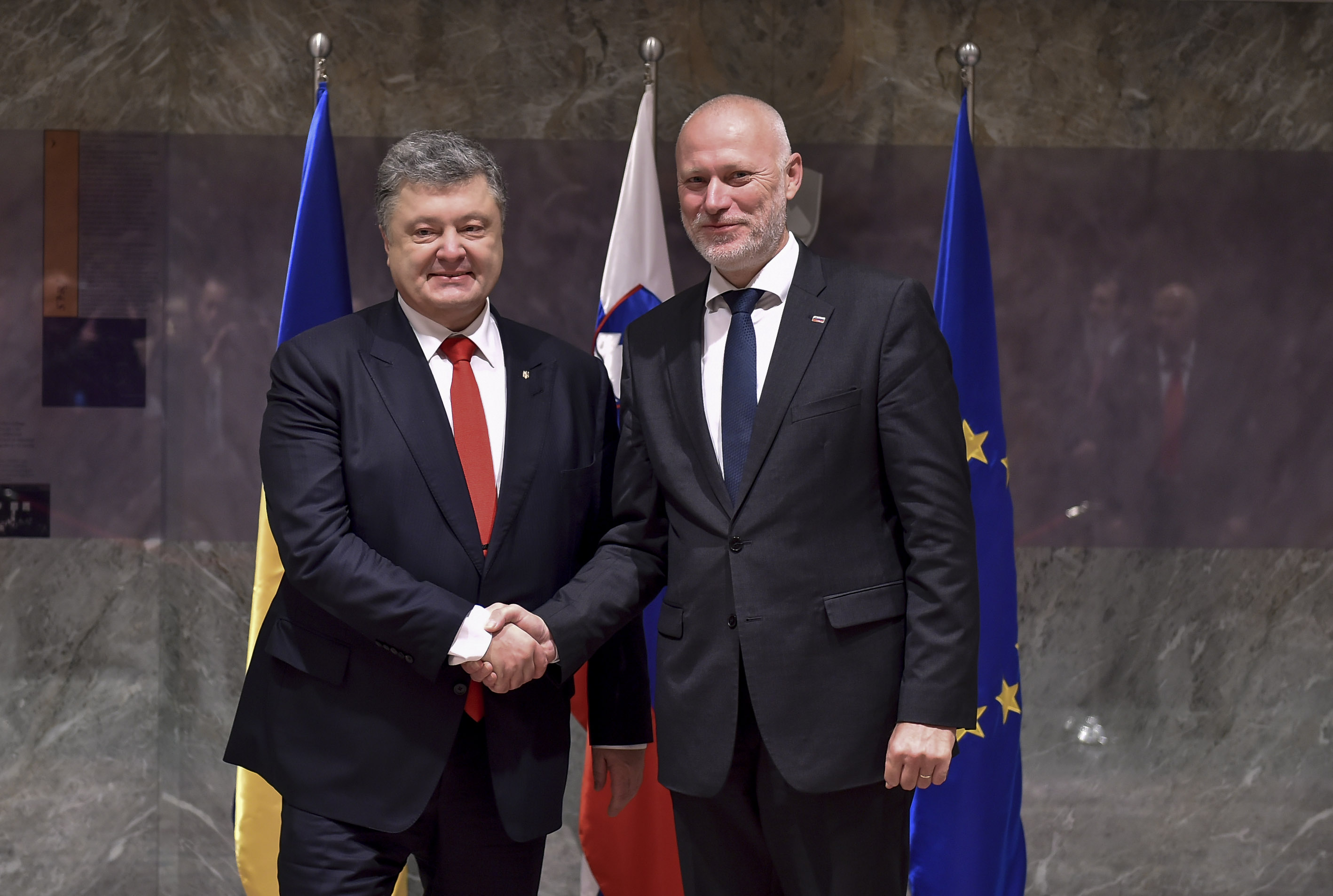 Petro Poroshenko in Slovenia in 2016.